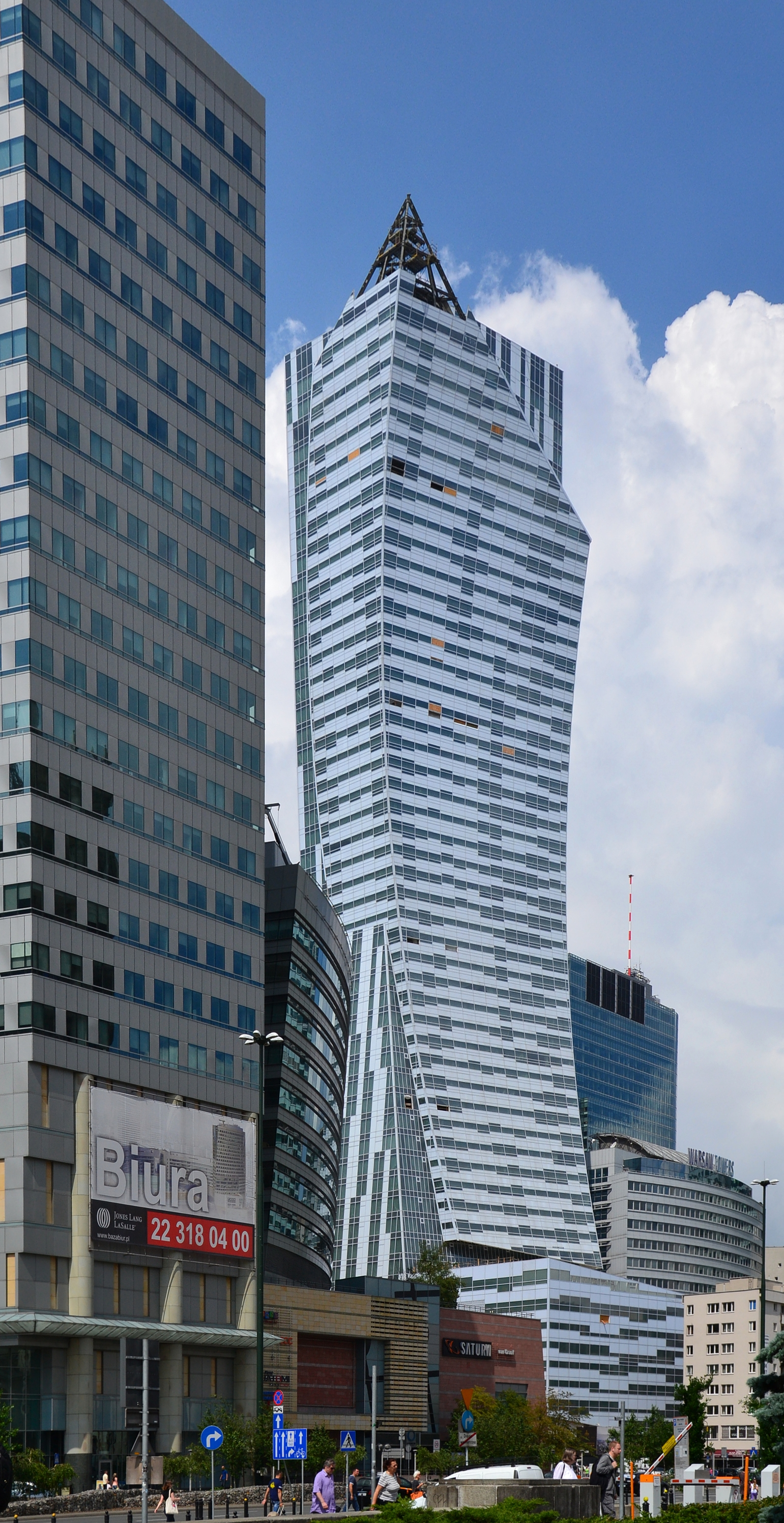 Złota 44 in Warsaw